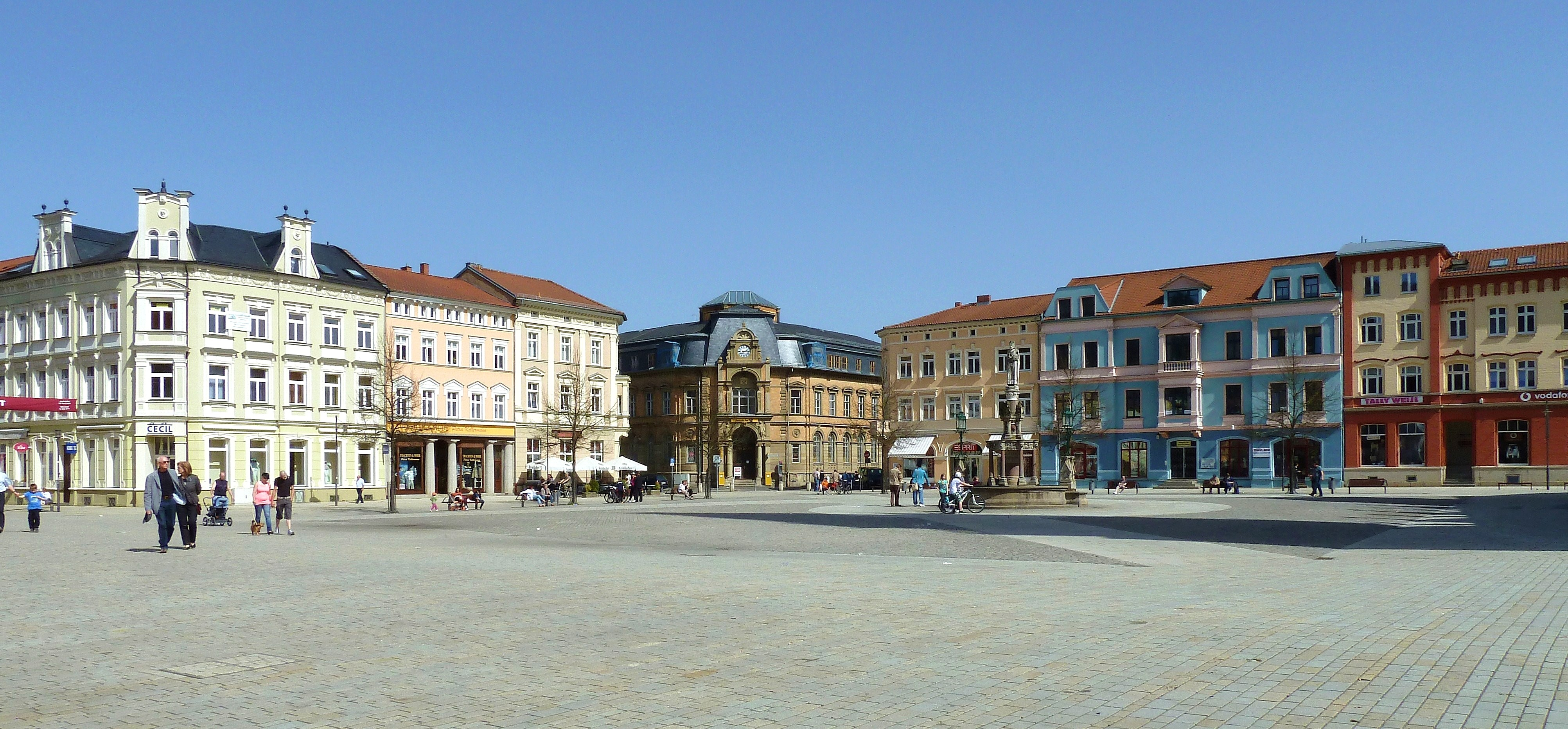 Marketplace in Meiningen, Germany, 2011.